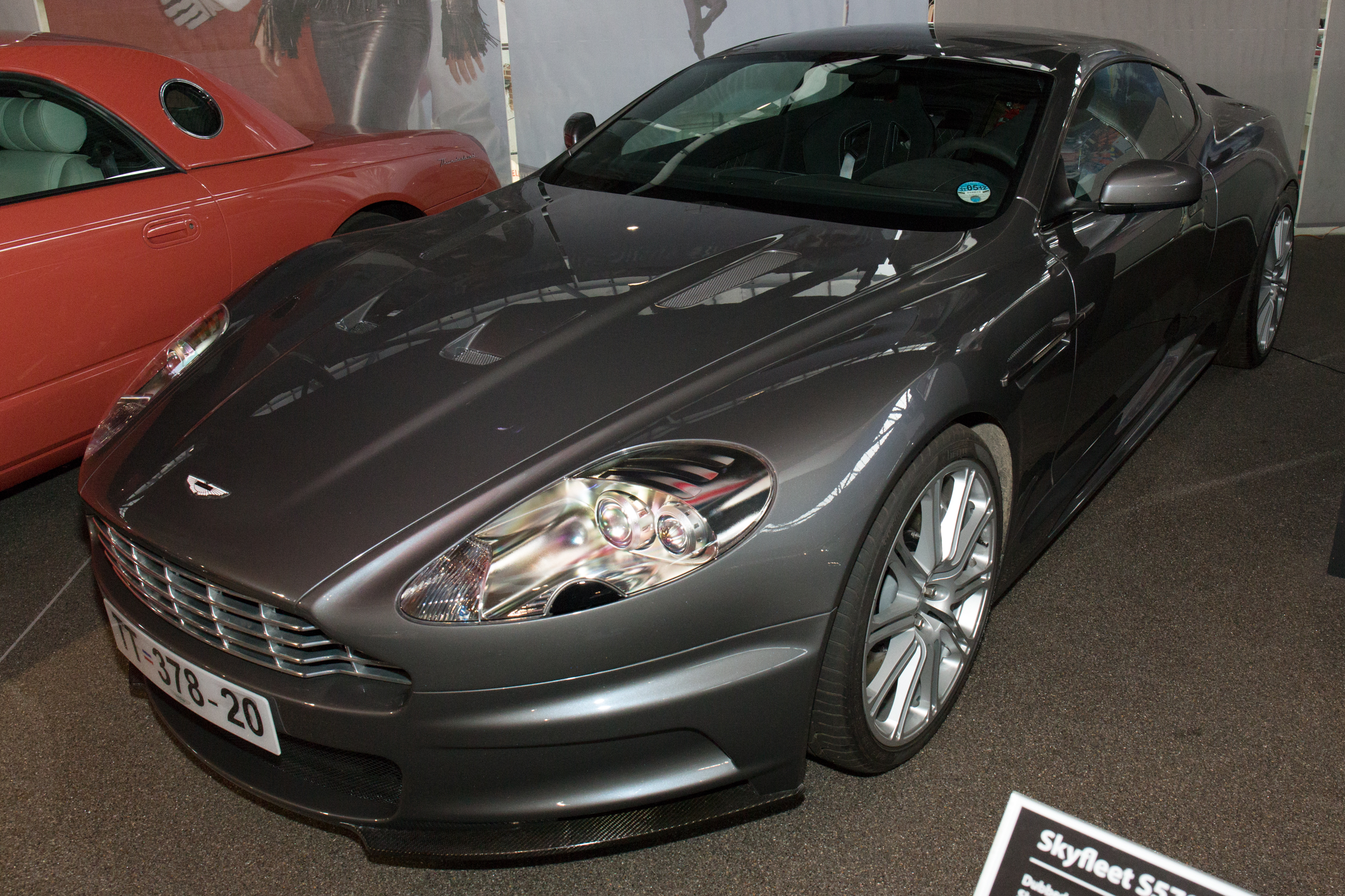 Aston Martin DBS prototype, from "Casino Royale" (2006)